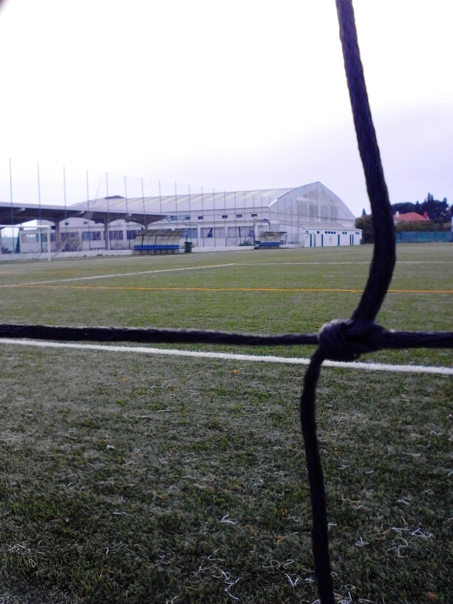 Seen through the youth field adjacent to Estádio de Restelo